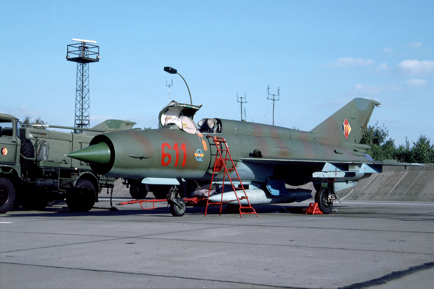 A MiG-21M of Taktische Aufklärungsfliegerstaffel 47 (Tactical Reconnaissance Squadron 47) at Preschen. 23 August 1990. 611 became 22+89, but never flew in the Luftwaffe and was scrapped.